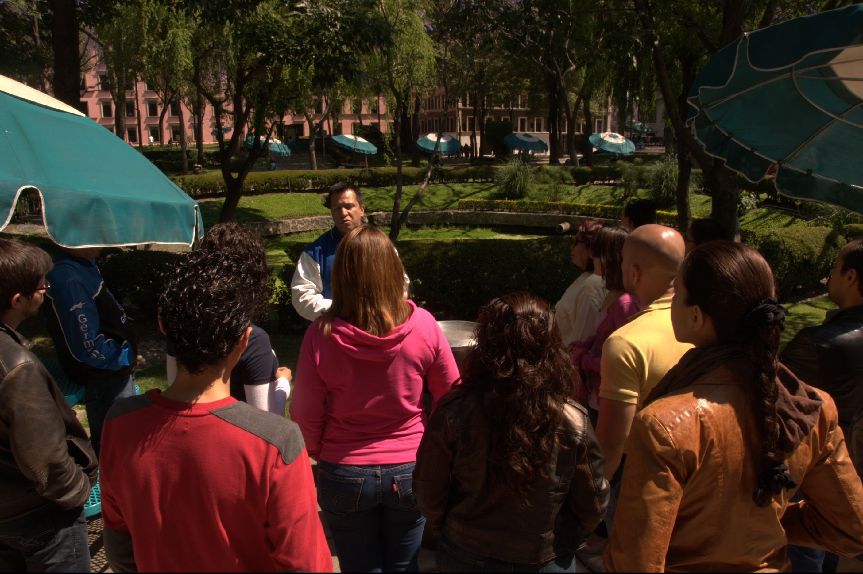 Sustainabiliy course tour of ITESM Campus Ciudad de México